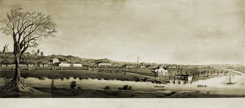 Image of a watercolour painting of Moreton Bay Settlement New South Wales in 1835. Note that Queensland did not become a colony separate from New South Wales until 1859. This panorama landscape depicts the Moreton Bay Settlement in 1835. The viewpoint is from South Brisbane, on the site now occupied by the Queensland Cultural Centre. The Brisbane landscape and buildings of the period are depicted. Buildings depicted are the Windmill, with a fence in front and the treadmill building to the left; the row of buildings from left to right are the surgeon’s cottage and convict and military hospitals (three low set buildings in a row); the convict barracks, a multi-storey building with a walled yard; the military barracks, a multi-storey building with a low set guard house just visible to the left; the Engineer’s House, used during Bowerman’s time as offices for the commandant and commissariat staff; the kitchen for, and then the Parsonage building, which by 1835 was being used as quarters for commissariat staff; the Commissariat Stores buildings, with an arched wharf with a crane and sentry box to the front, a small boat house to the left of the wharf, and boat builders hut and storeroom to the right of the wharf; and the Commandant’s House, with a small kitchen/convicts’ quarters building to the left. The building in the far right of the painting, shown behind a row of trees growing on the river bank, was the Government Gardeners house.